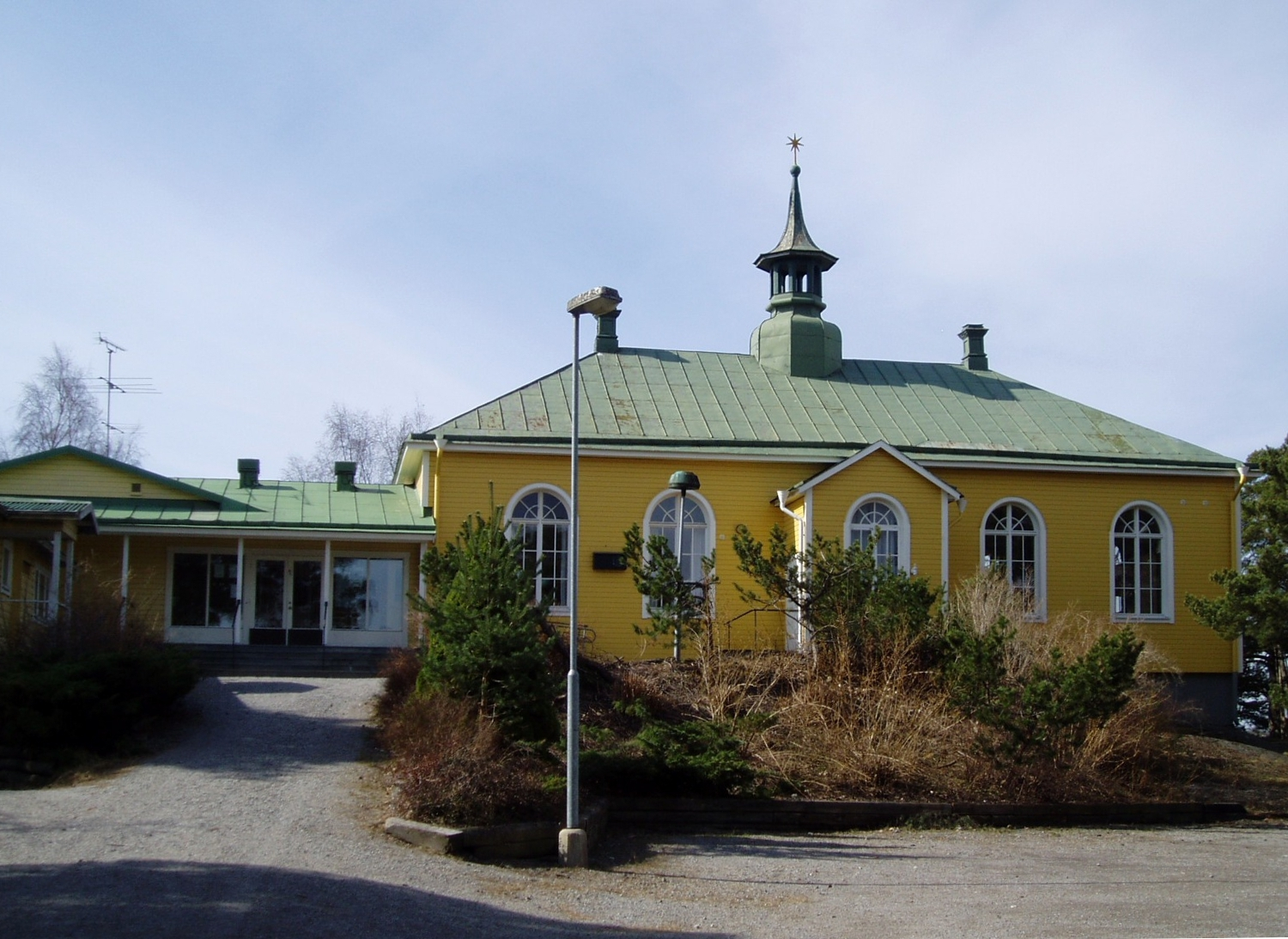 Björknäs church, Nacka municipality, Sweden